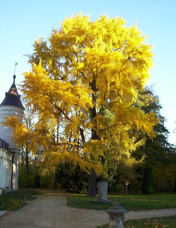 Gingko bilboa in palace garden in Radziejowice, Poland.